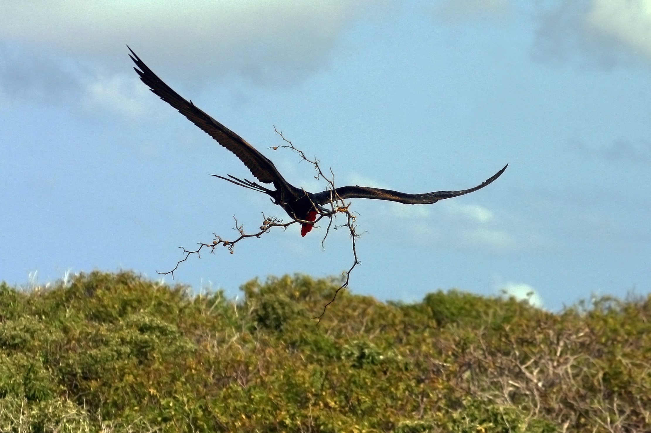 Great frigatebird (Fregata minor) male flying in with stick to build nest; Genovesa Island (El Barranco), Galapagos Islands.